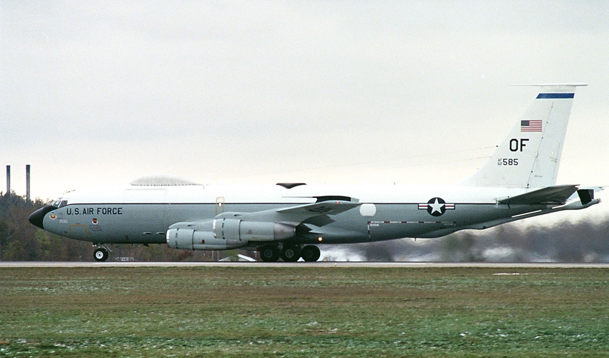 Boeing EC-135C (62-3585) 7th ACCS, 55th Wg. Offutt Air Force Base